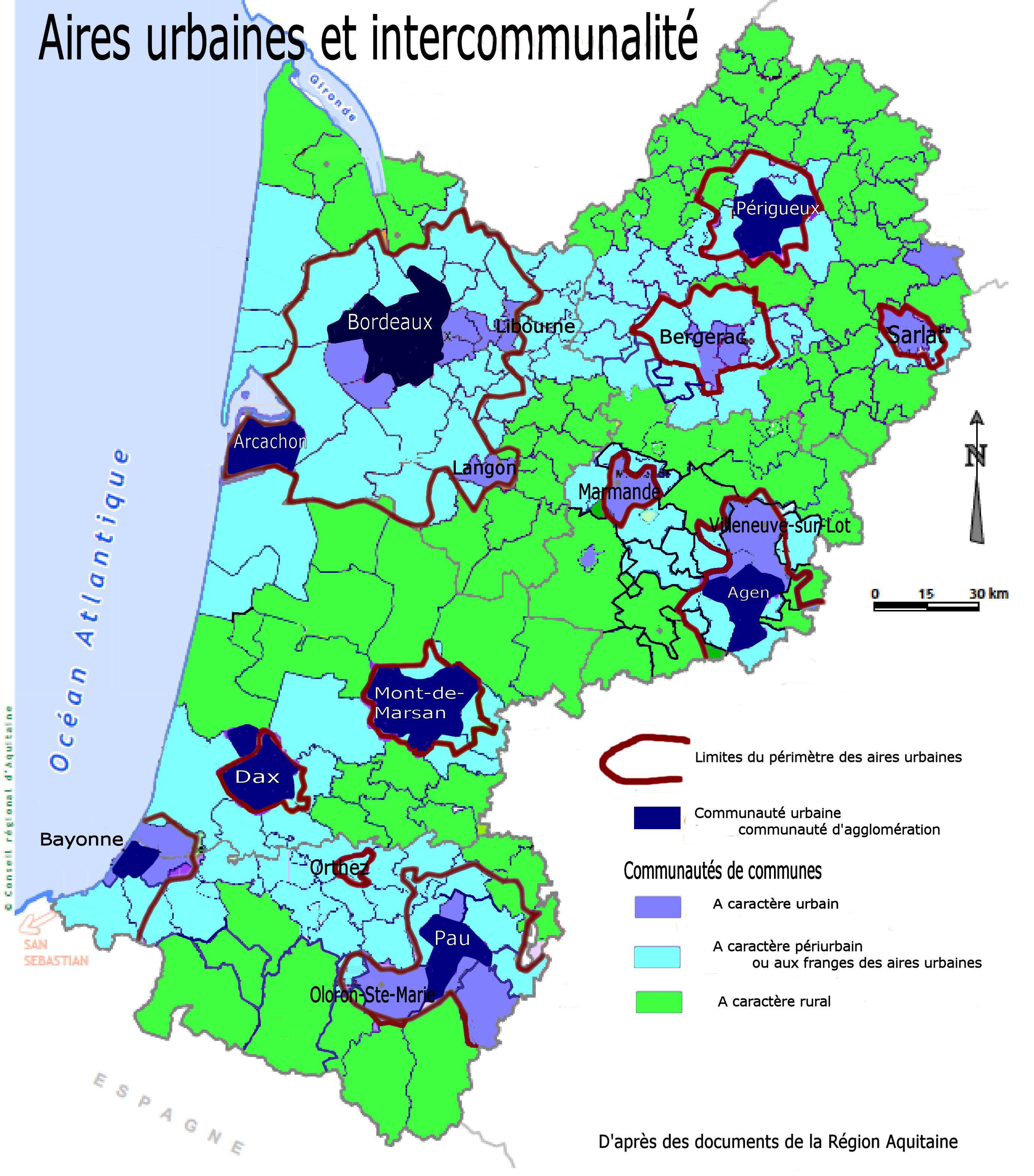 Urban areas in 2008 and Intercommunity